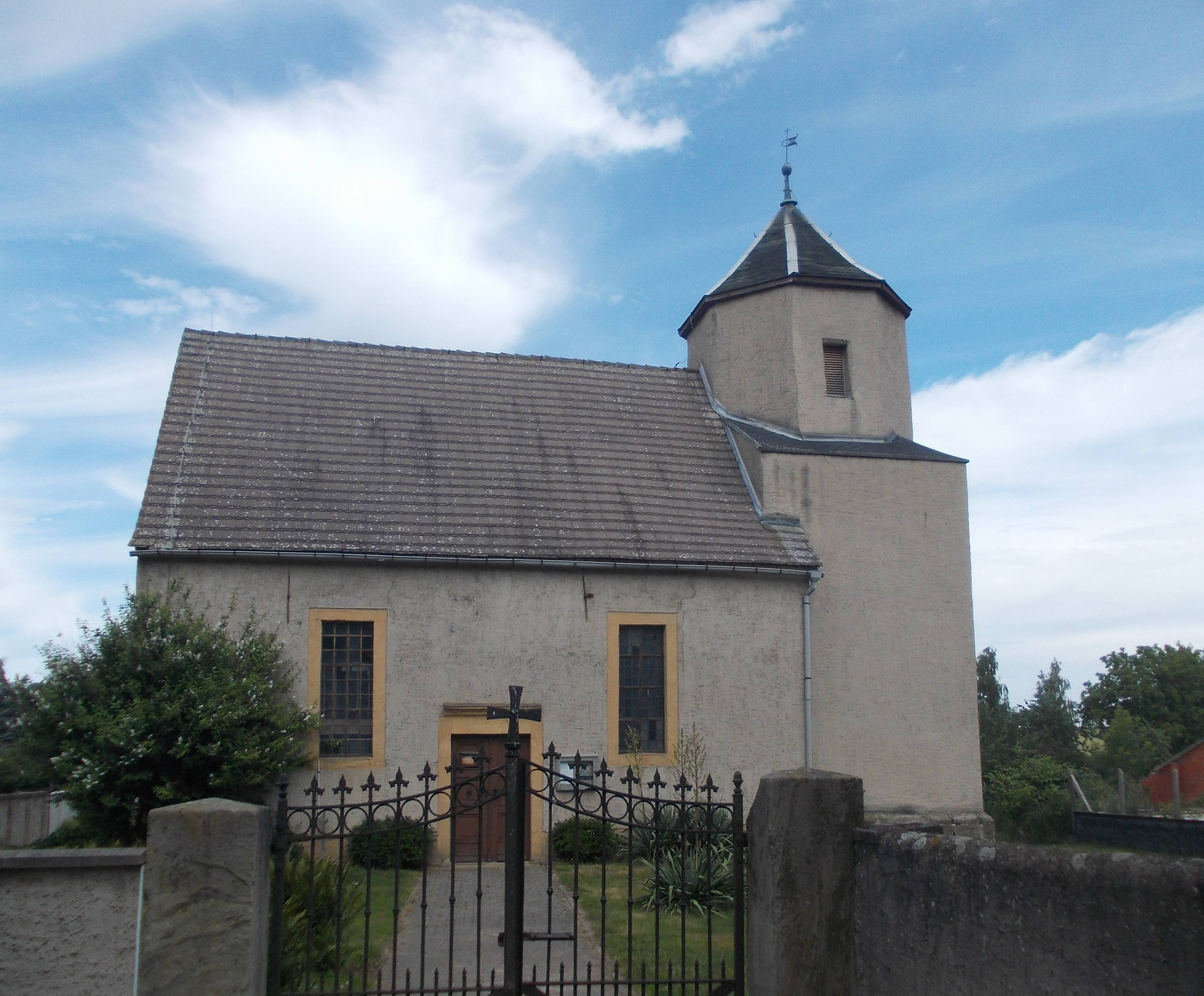 St. Stephen's Church in Bernsdorf (Finneland, district: Burgenlandkreis, Saxony-Anhalt)